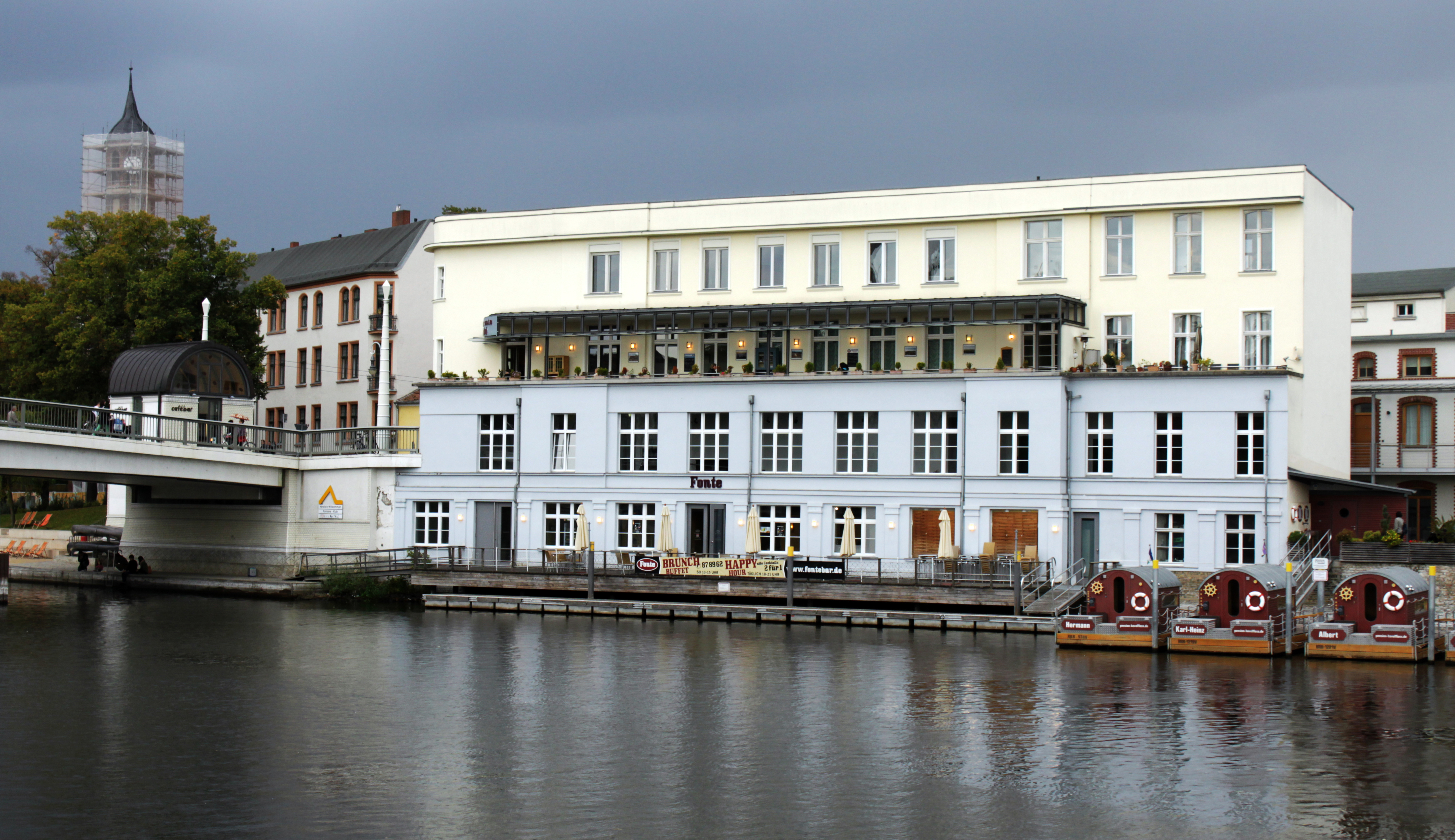 The Spitta-Building in the northbanks of the river Havel is hosting the event-theater.